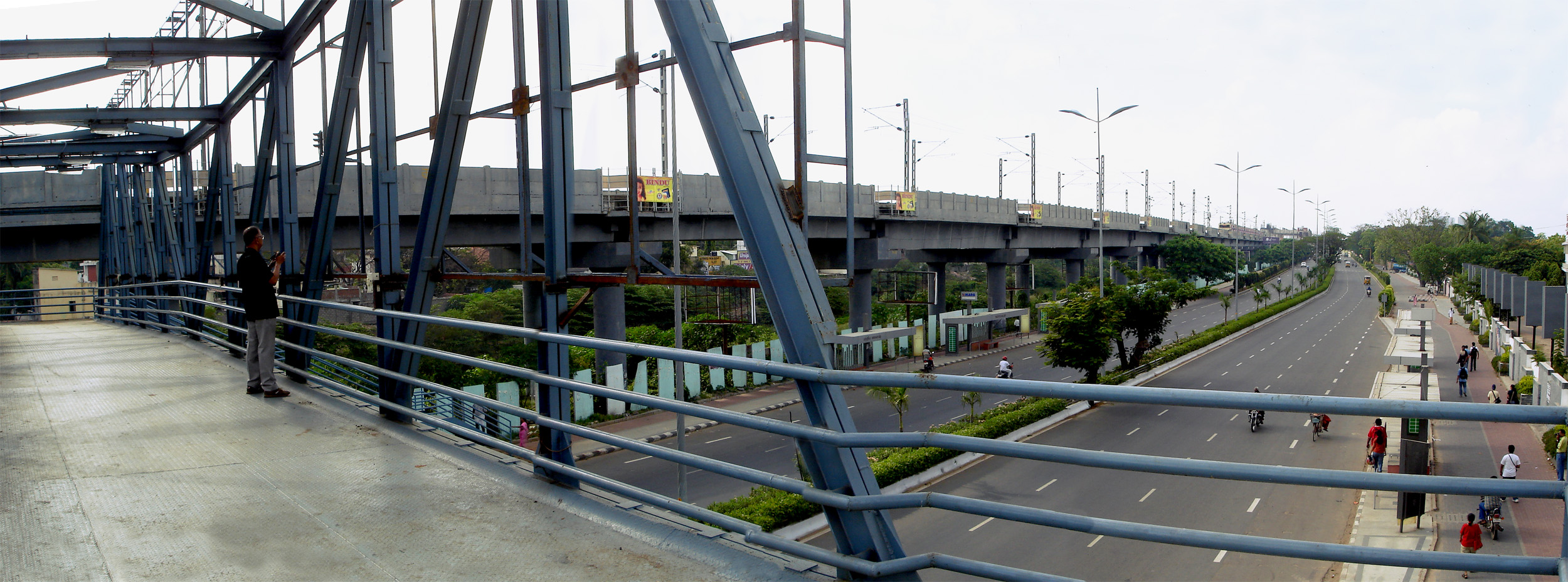 A section of the Rajiv Gandhi Salai from Kasturibai Nagarstation foot overbridge.